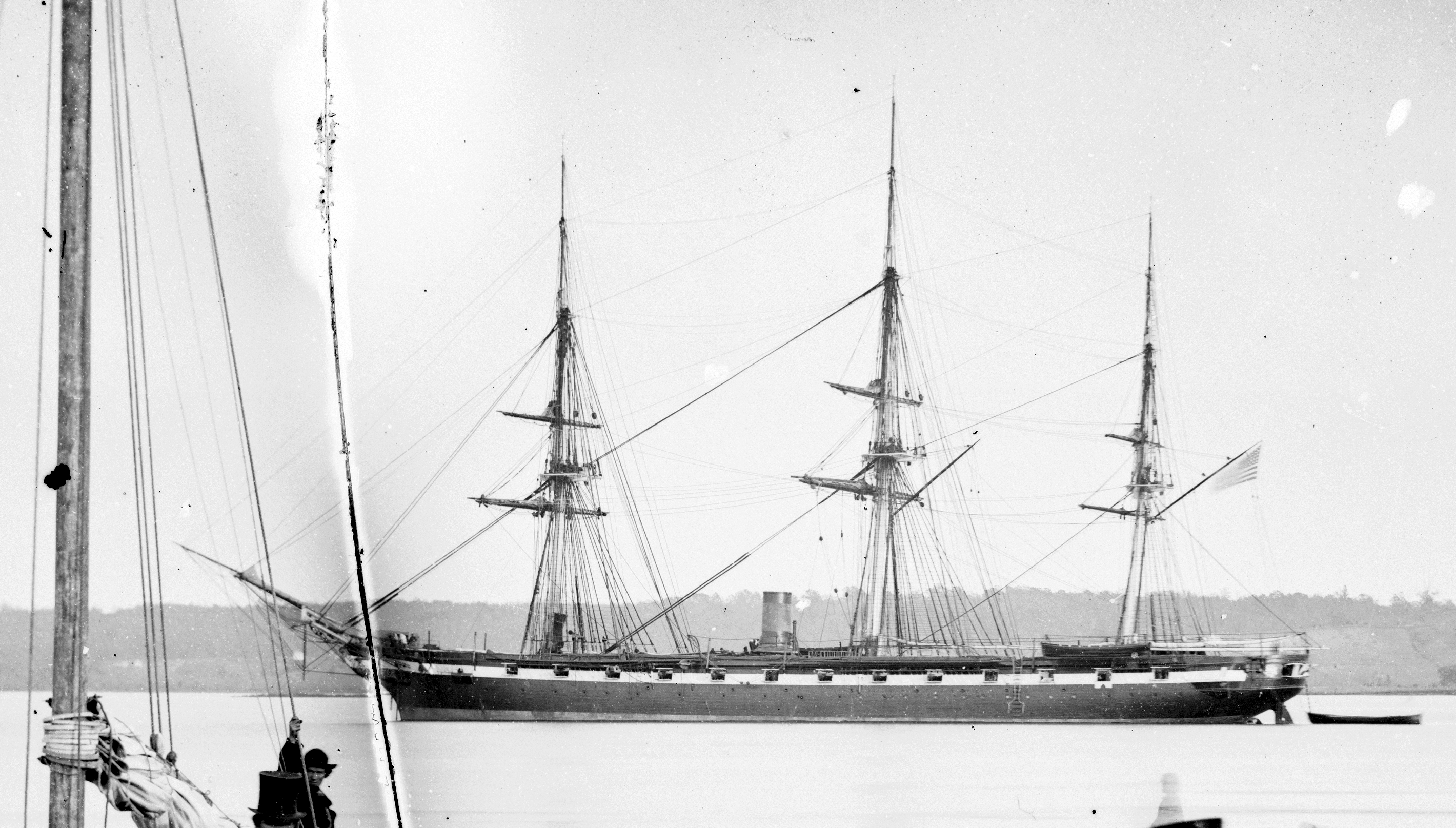 Steam corvette (sloop) USS Pensacola in Alexandria, VA, 1861 (sometimes called frigate)